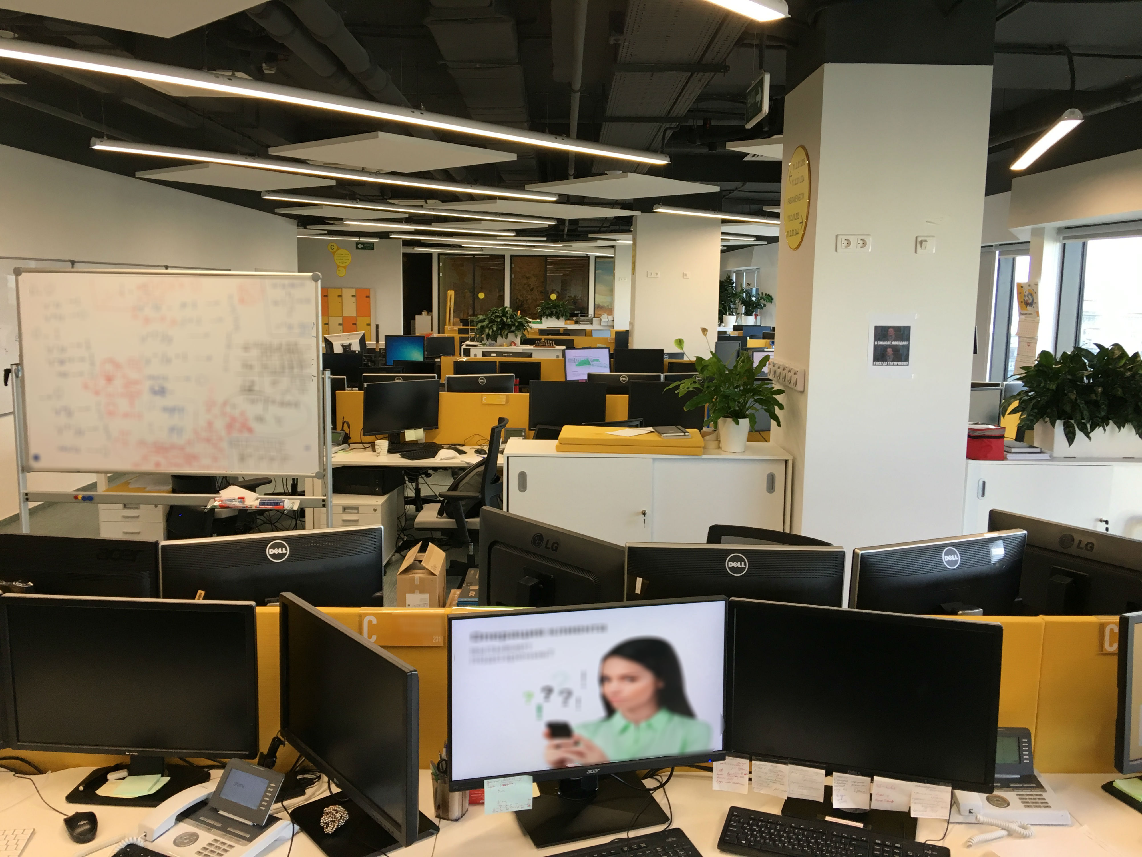 Sbergile office interior, 11th floor (Risks CIB)